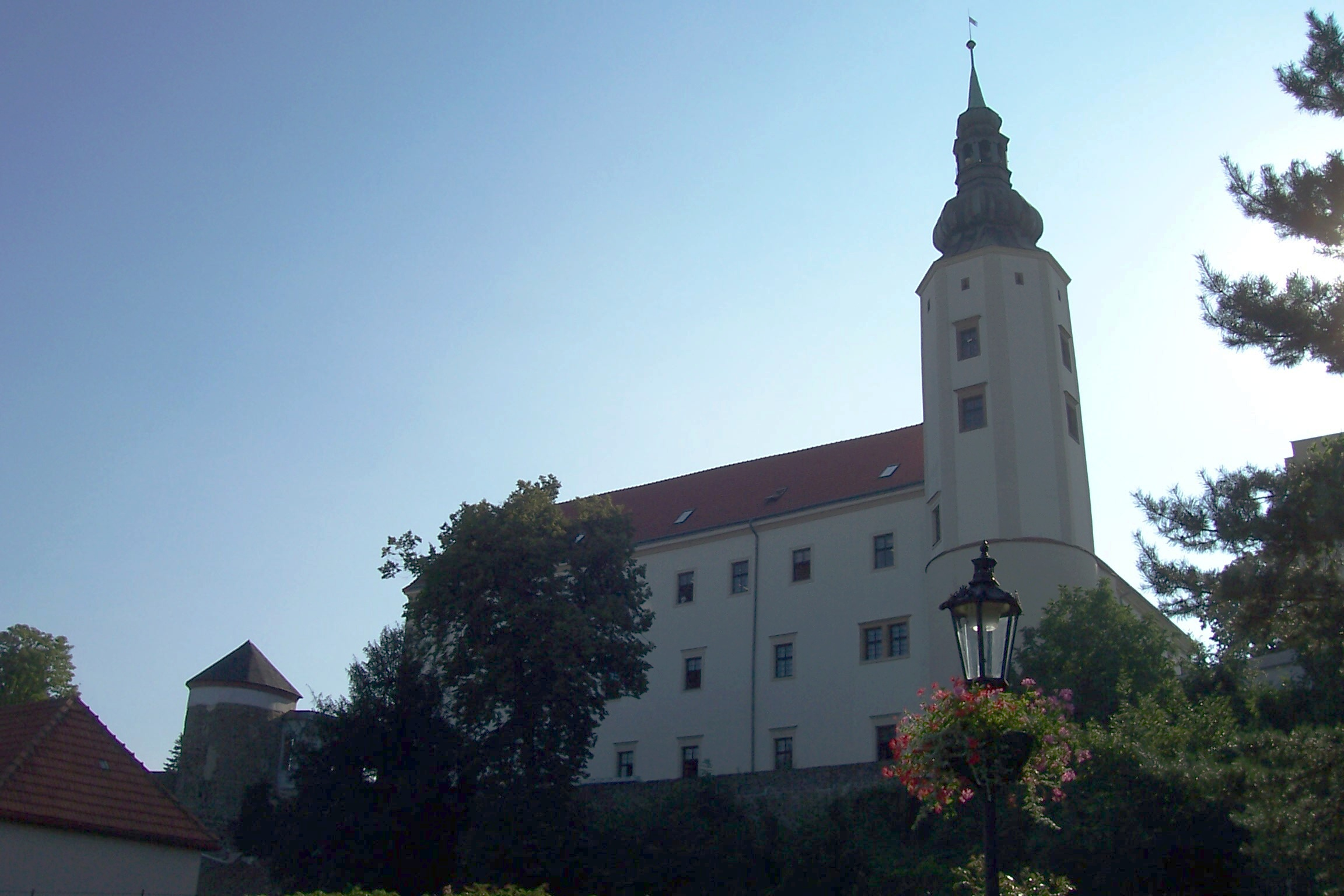 Hranice in Přerov District, Czech Republic. Castle.